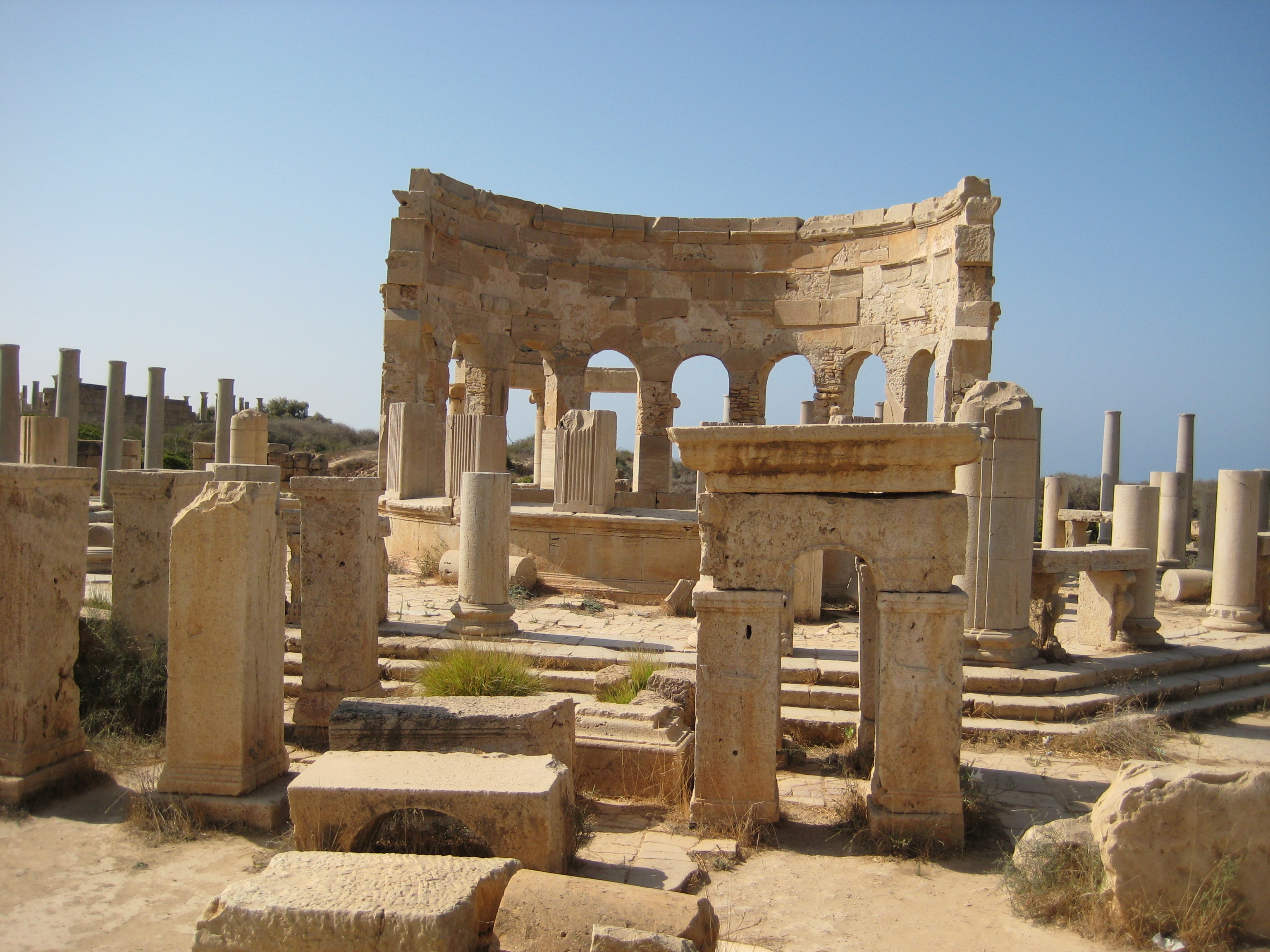 Market view, Leptis Magna 2nd century A.D. (Libya)